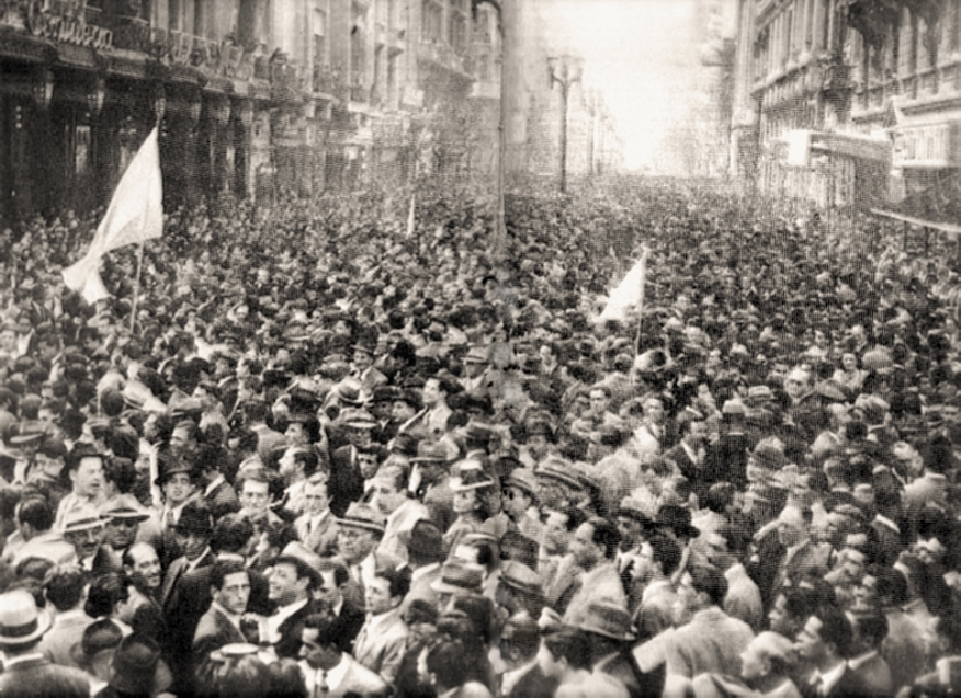 March for the Constitution and Freedom (Marcha de la Constitución y la Libertad), an anti-Peronist demonstration in Buenos Aires, Argentina.